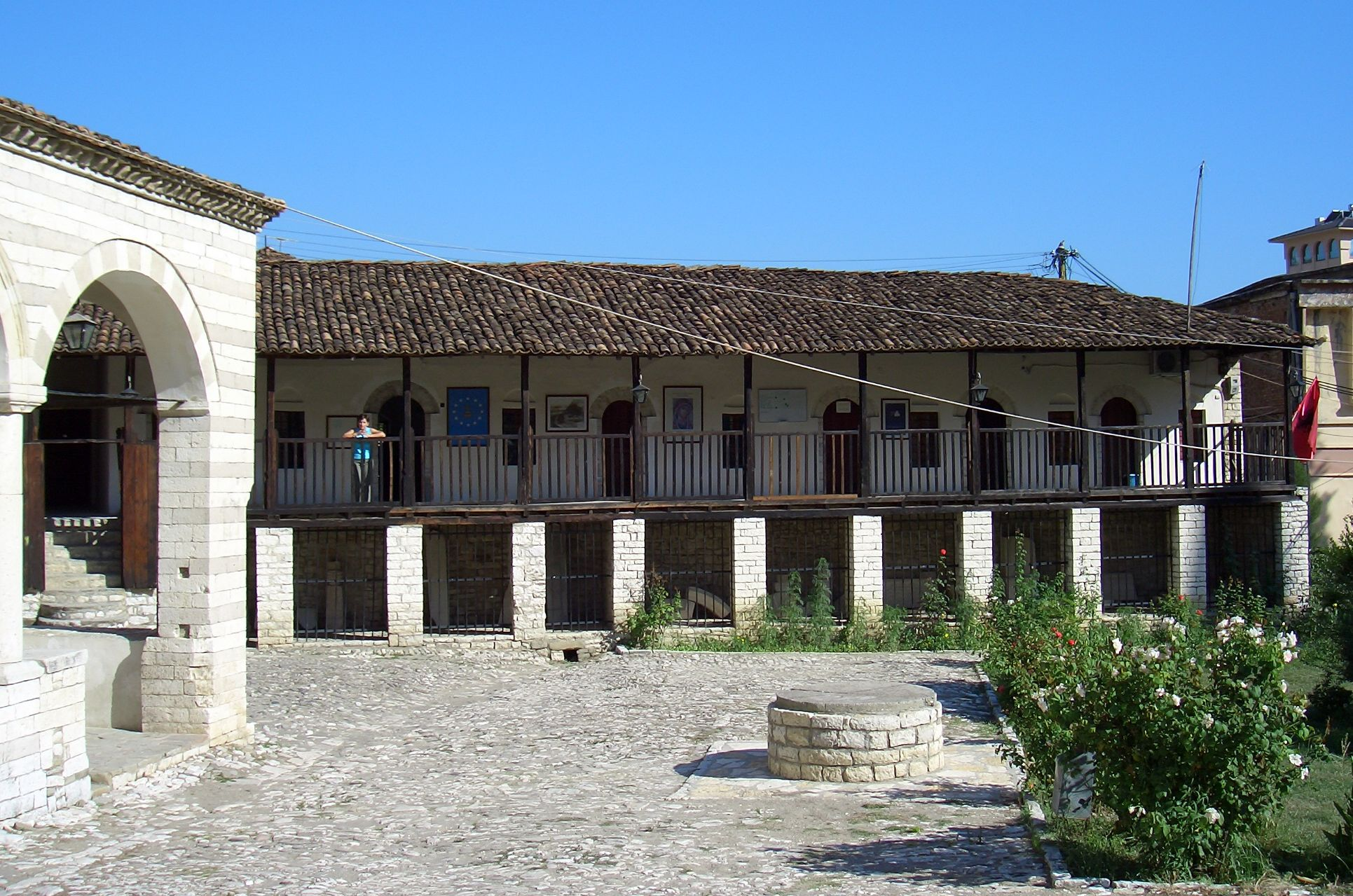 Han in Berat (End of 17th century)